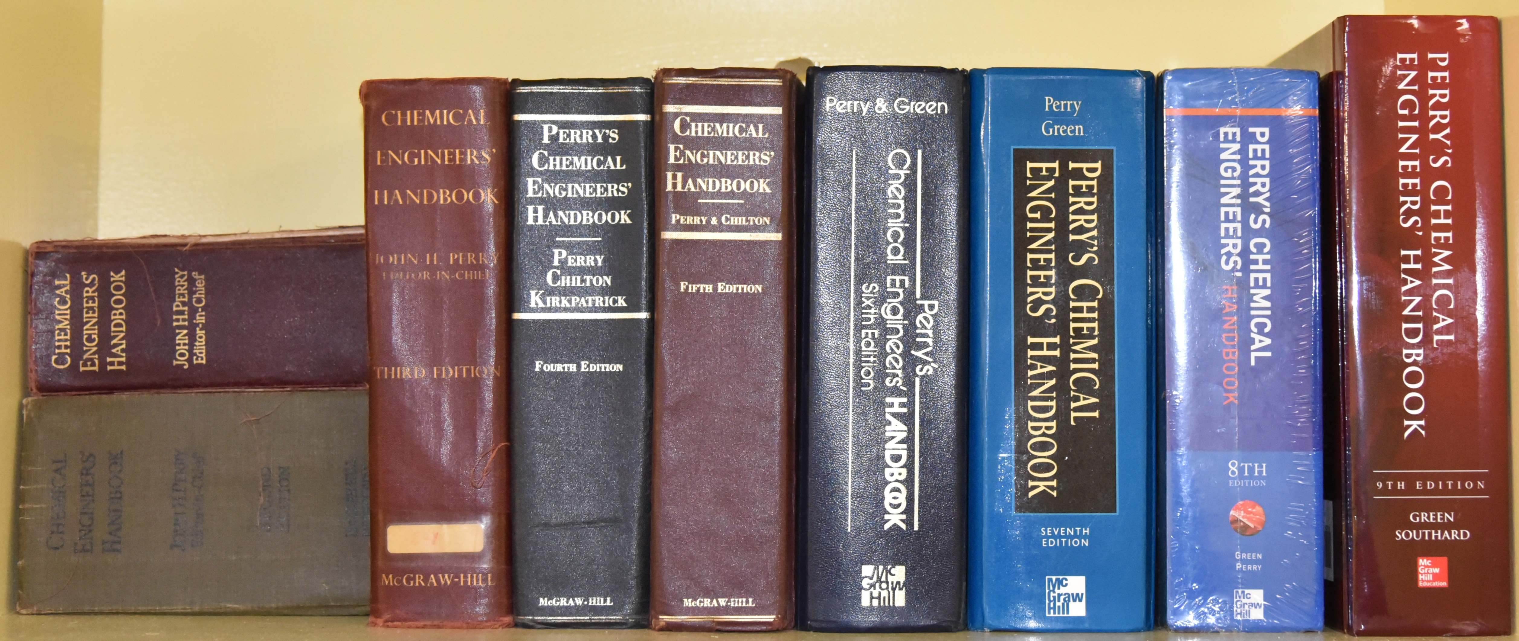 The first 9 editions of Perry's Chemical Engineers' Handbook depicting relative sizes.